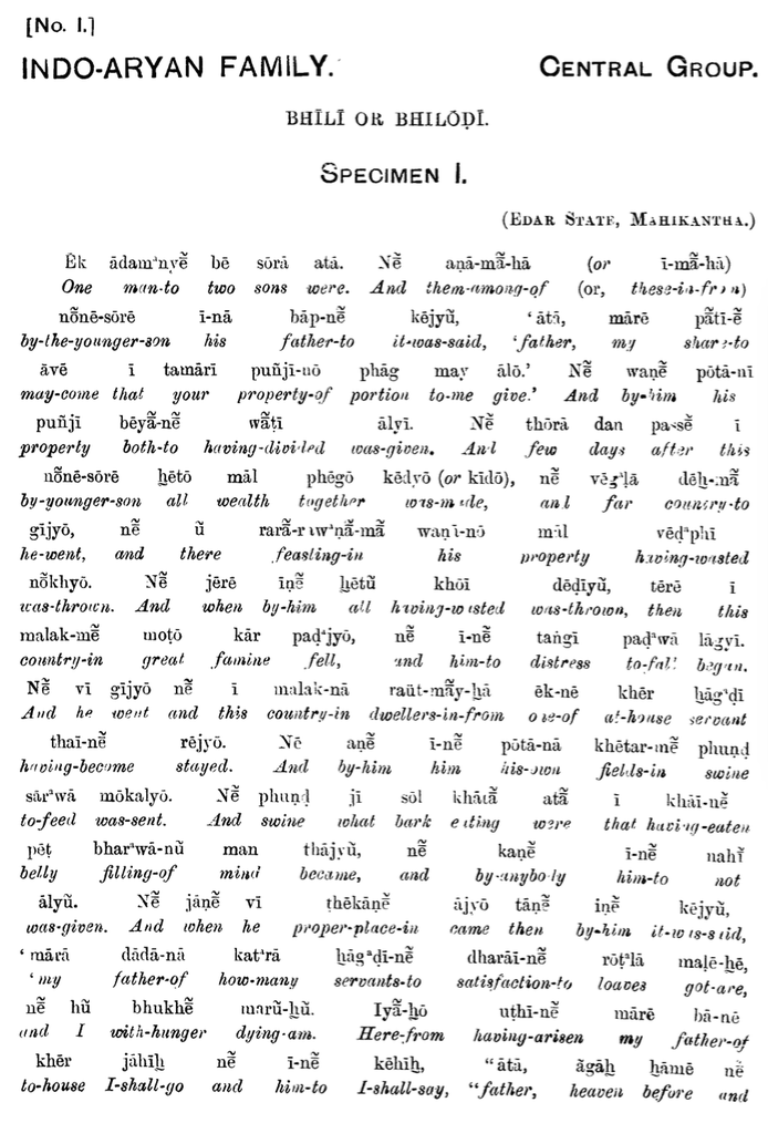 Complete specimen can be found here: Grierson, G.A. (1907). "Part III The Bhil Languages". Linguistic Survey of India. Vol. IX Indo-Aryan Family Central Group. Calcutta: Office of the Superintendent of Government Printing. p. 15.